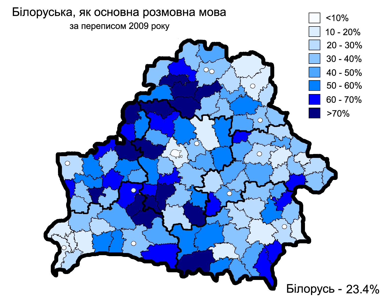 Belarusian as a "language spoken at home" according to the 2009 Belarus Census